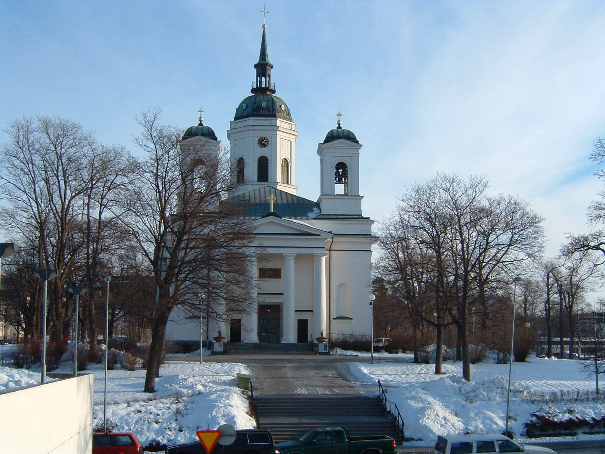 The cathedral building of "Härnösands domkyrka" at Nygatan in Härnösand, viewed from northwest (parking deck, top floor)